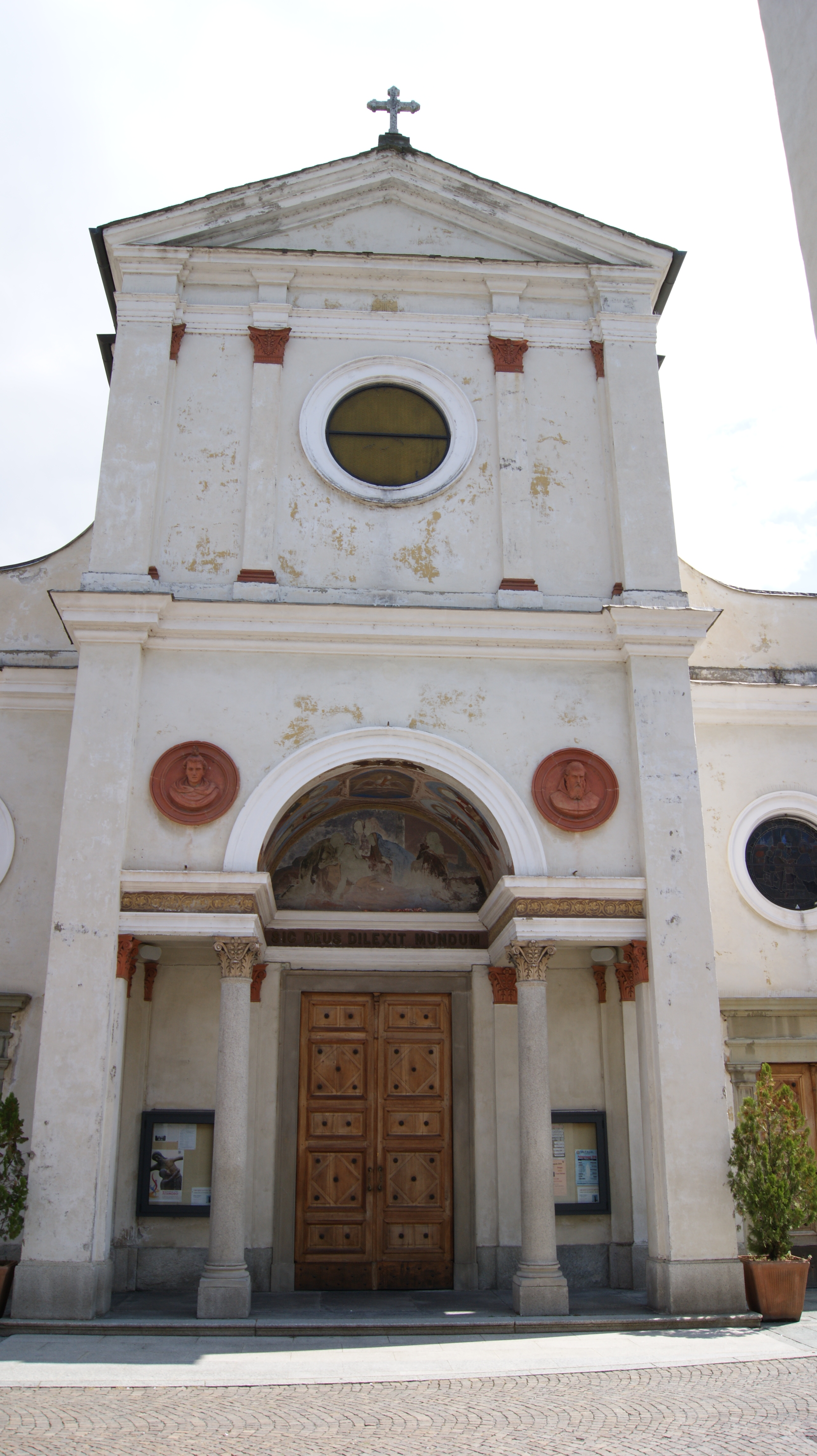 Parish church of San Martino (Chiese San Martino) in Tirano.